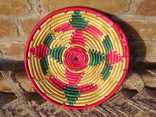 Chaba - Traditional utensil used in rural areas of UP, MP, Bihar and Punjab- This is like a plate and is used to keep the Roti (Chapati, Bread). Mostly used in villages, and one of the benefits of this utensil is that it keeps the Roti/Bread warm for long time as compared to a plate. It is also used as a show piece, displayed on walls to bring a traditional touch.